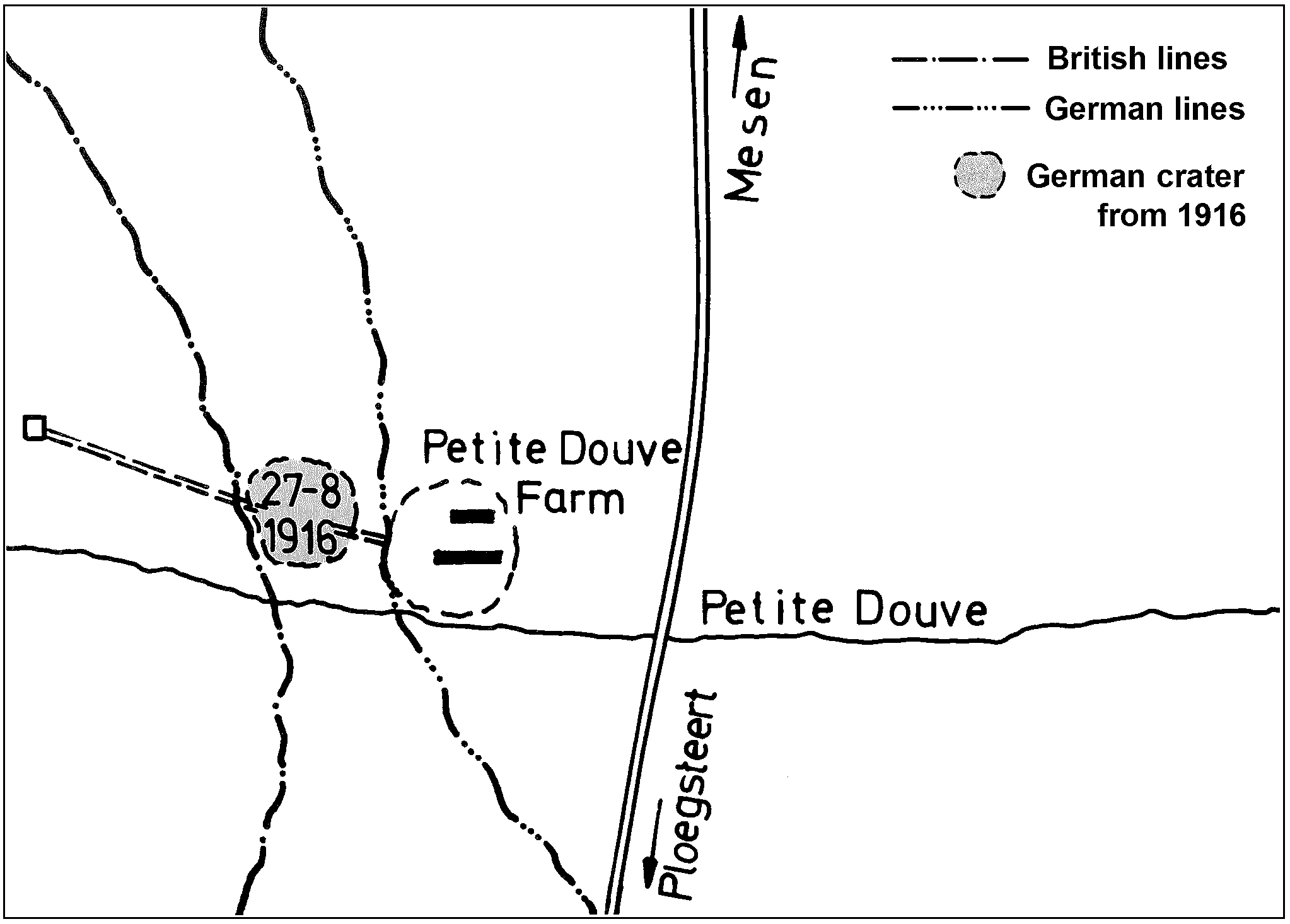 Plan of the mine at La Petite Douve Farm, part of the mines placed by the tunnelling companies of the Royal Engineers in the Battle of Messines (1917). This drawing is based on the plans published in Roger Lampaert, De Mijnenoorlog in Vlaanderen 1914–1918, Roesbrugge/Belgium (Drukkerij Schoonaert) 1989.